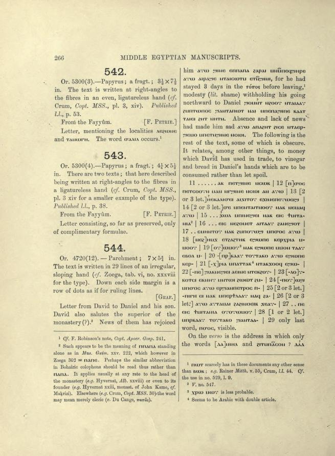 Page 266 of Crum's Catalogue of the Coptic manuscripts in the British Museum.